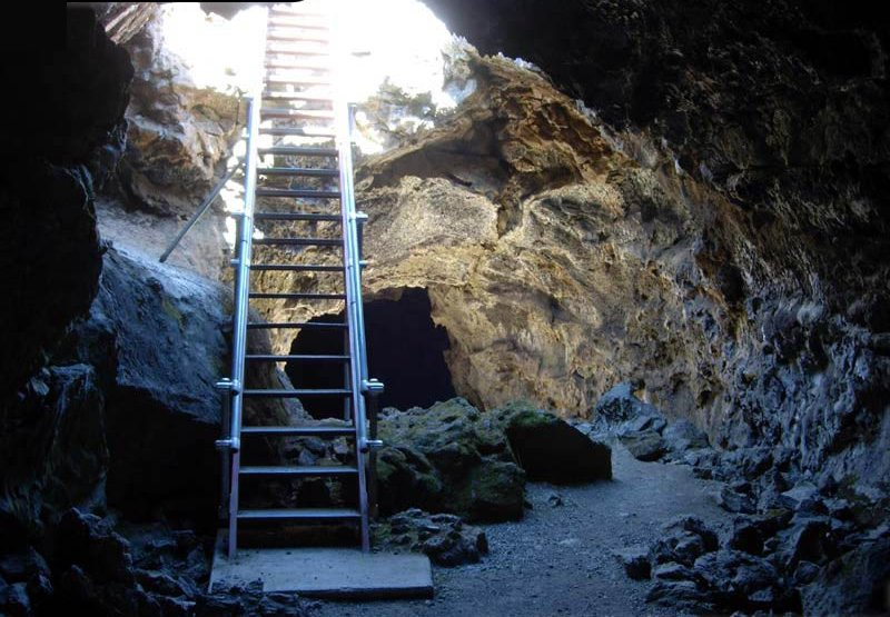 Entrance to Blue Grotto, Lava Beds National Monument, California